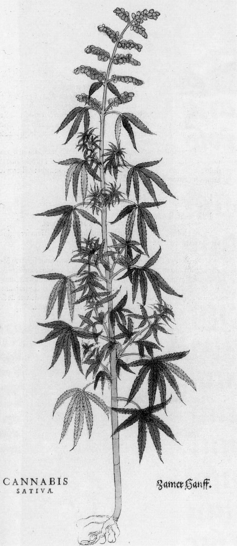 Cannabis sativa from Leonhart Fuchs's De De Historia Stirpium.